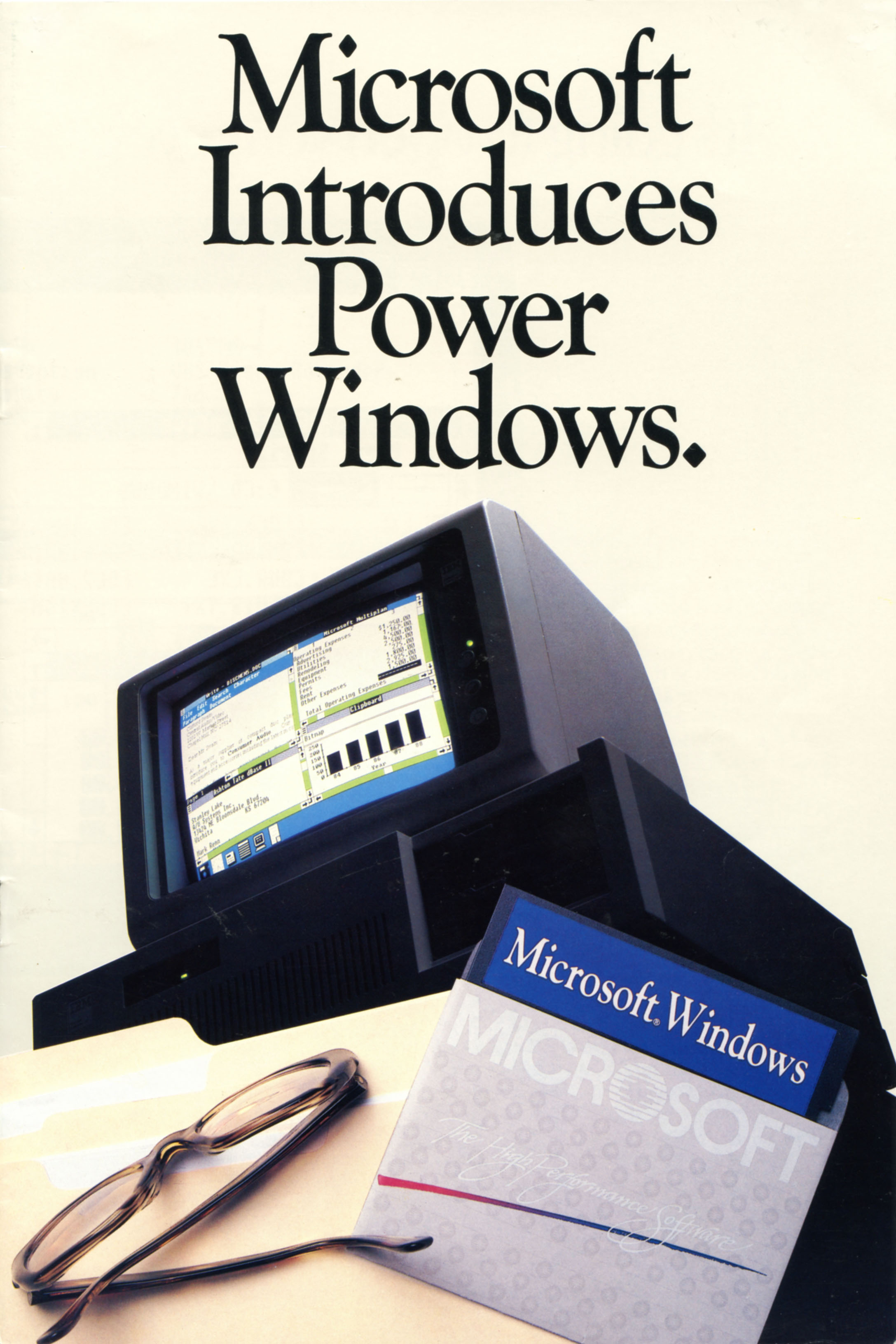 Microsoft Windows 1.0 was released November 20, 1985. This eight page brochure, "Microsoft Introduces Power Windows", was printed in January 1986 and is 7.25 inches wide by 10.875 inches high (184 mm by 276 mm).